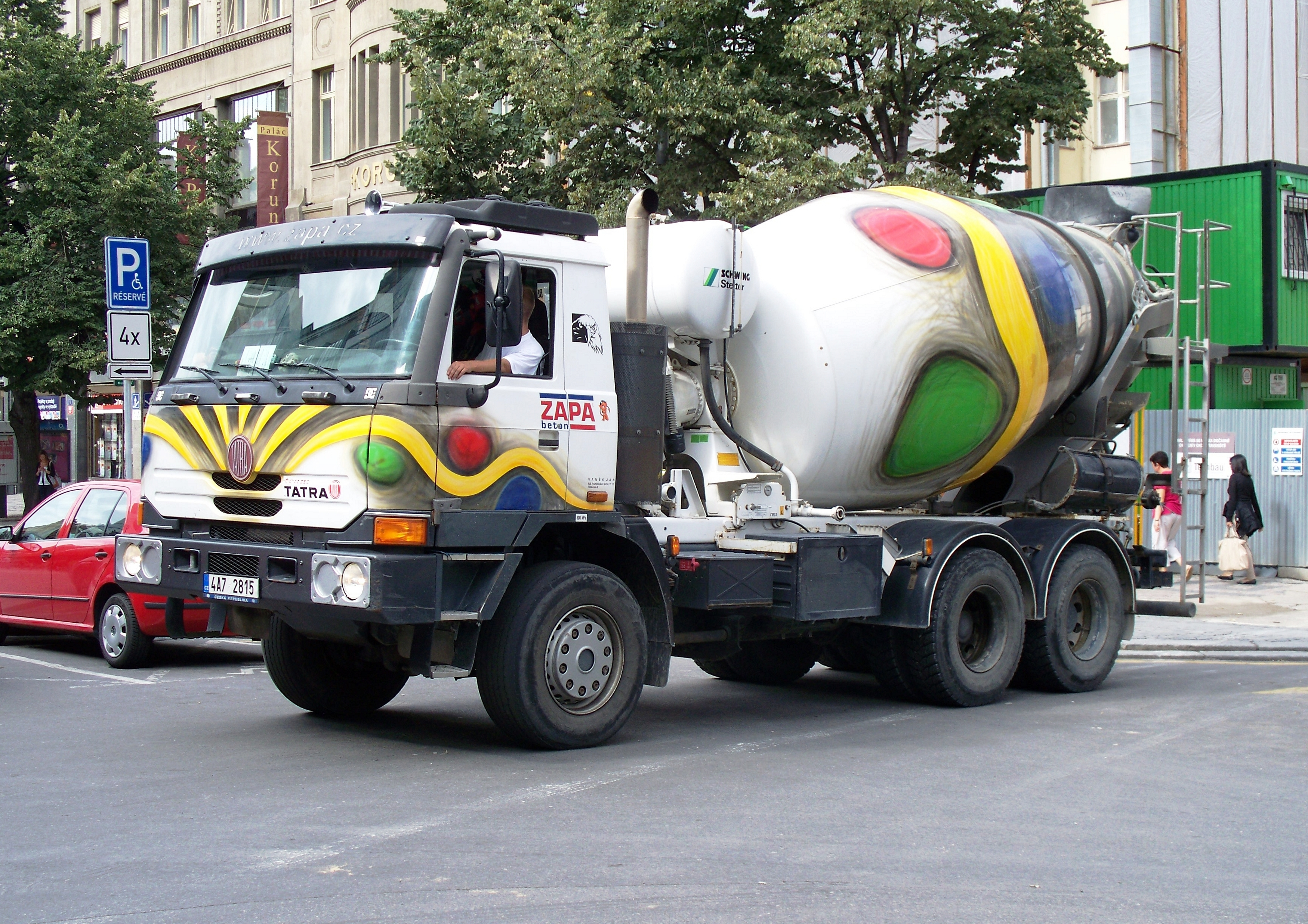 A czech cement mixer truck on a Tatra chassis in Prague.